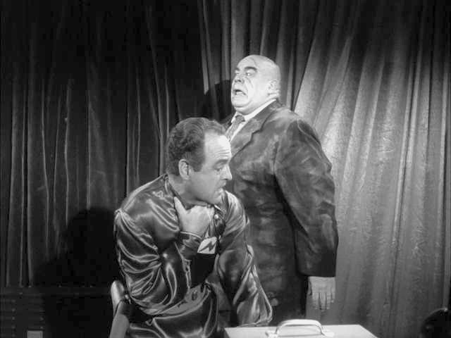 Film: Plan 9 from Outer Space (1959) Director: Ed Wood, Jr. Actors Portrayed: Dudley Manlove and Tor Johnson The original 1959 version of this film public domain, although there may be a copyright on the musical score